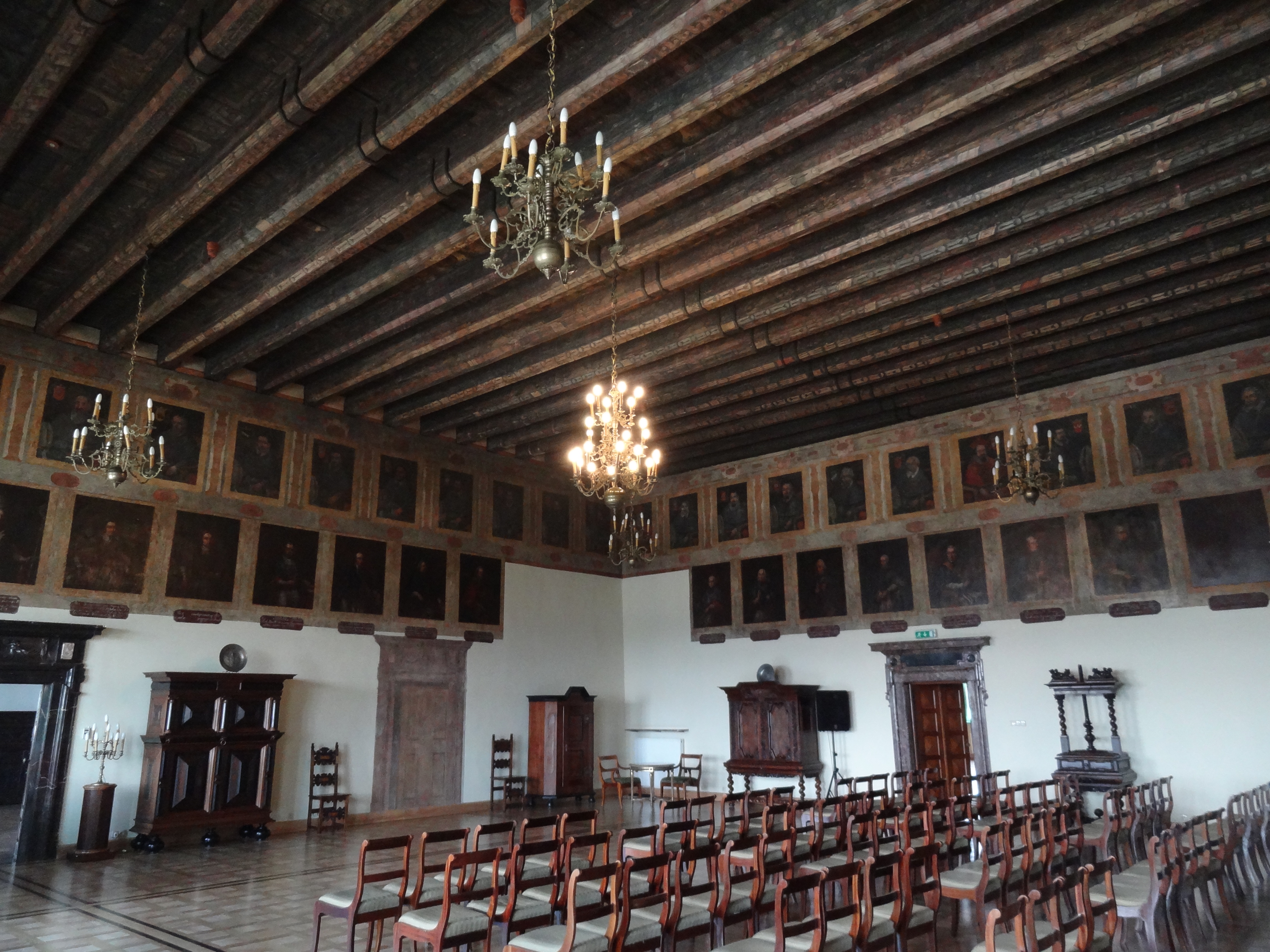 Interior of the Bishops Palace in Kielce 01201